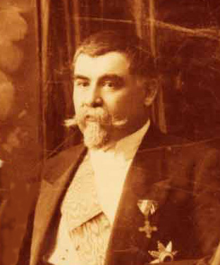 Ivan Salbashev (1853-1924) - Bulgarian politician, mathematician and chess player